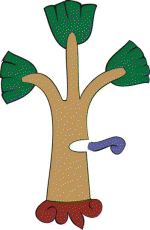 Logo Of Cuernavaca